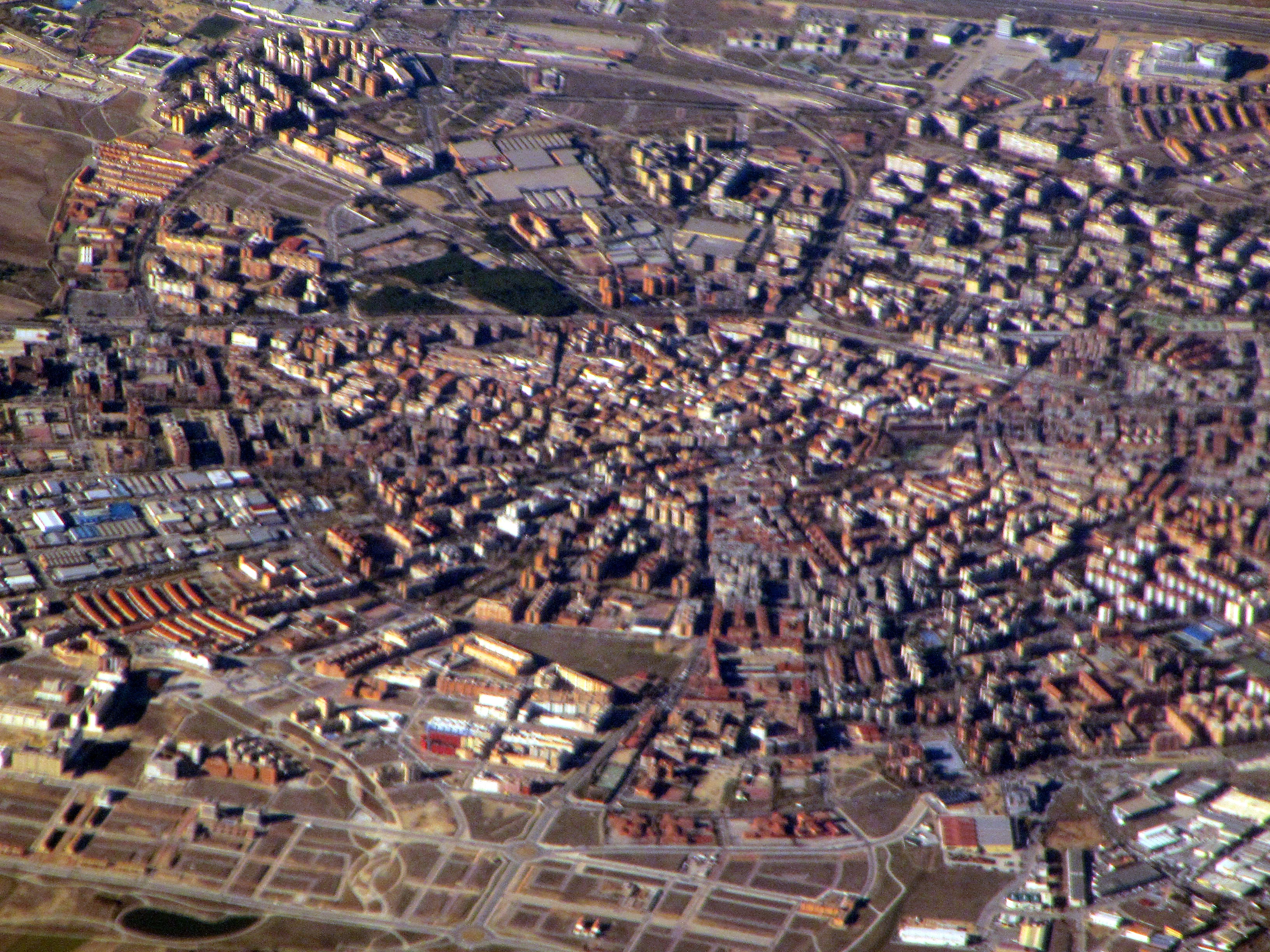 Móstoles